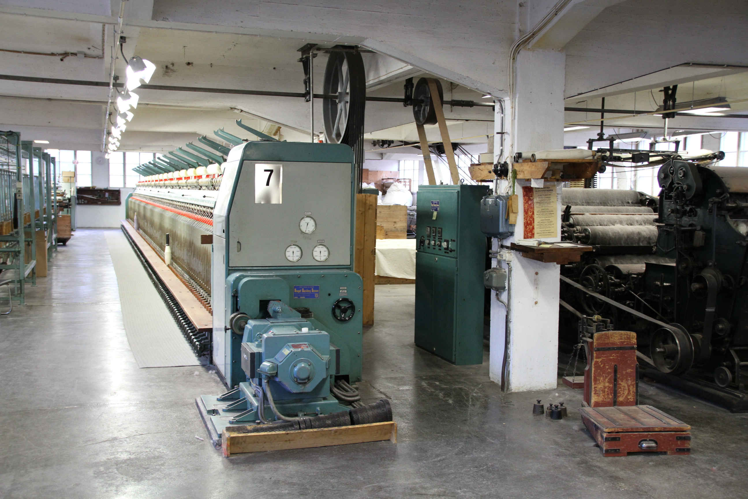 Image from the spinnery of the Sjøllingstad Wood Textile Factory, near Mandal in southern Norway. This machine is from 1969.